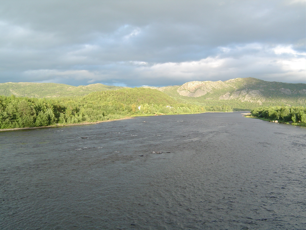 Altaelva river, Finnmark, Norway